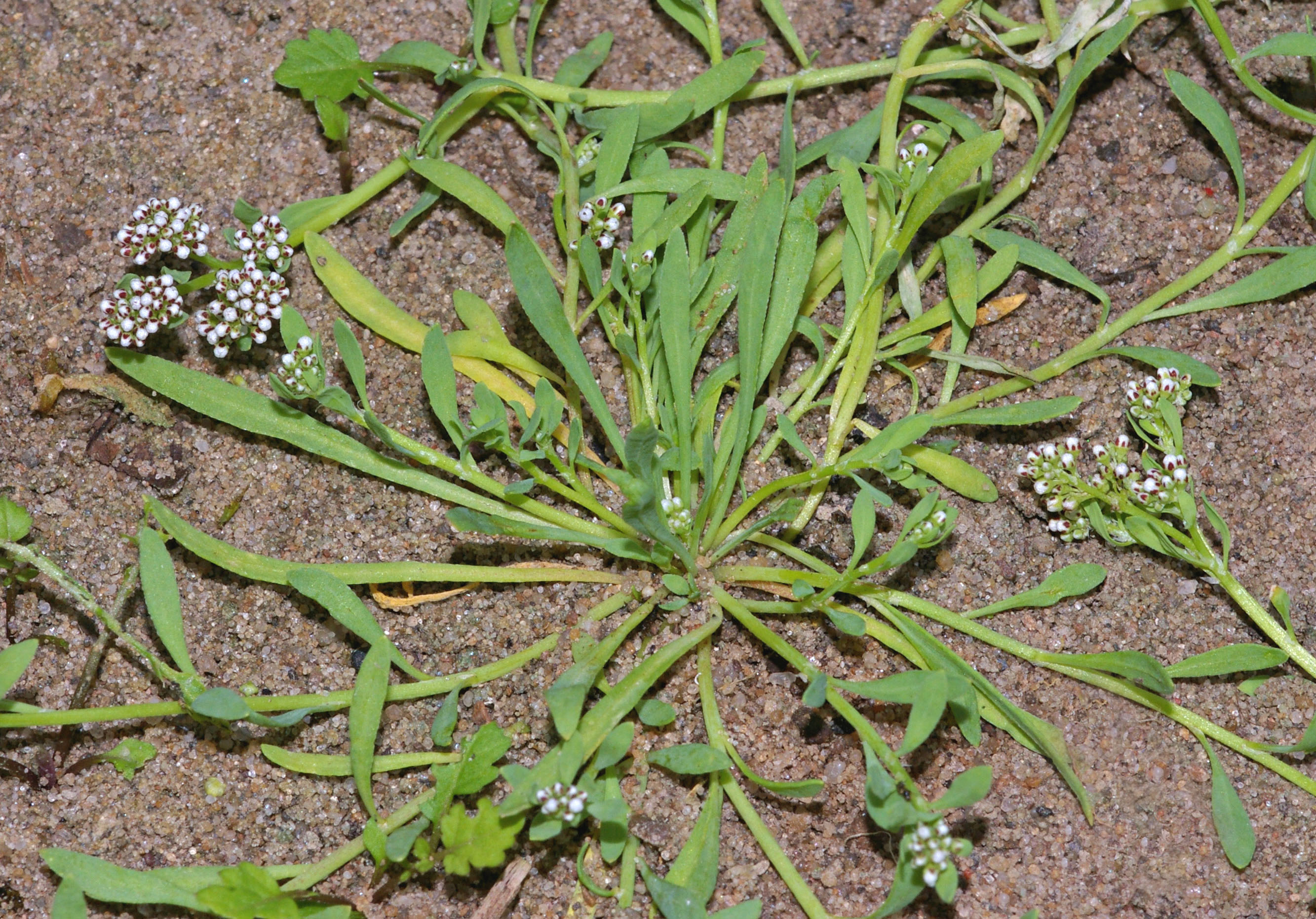 Parts of Corrigiola litoralis (Molluginaceae, formerly Caryophyllaceae).